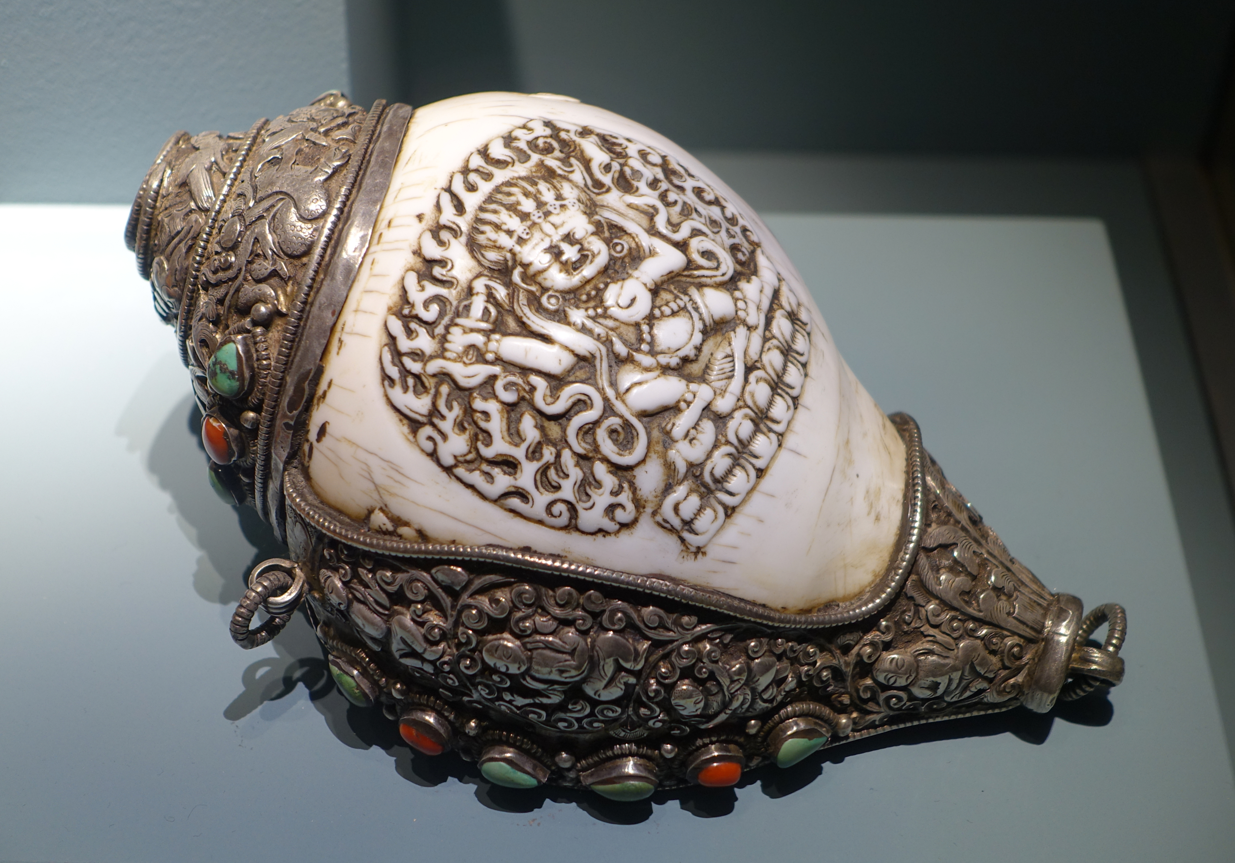 Exhibit in the Middlebury College Museum of Art - Middlebury, Vermont, USA.